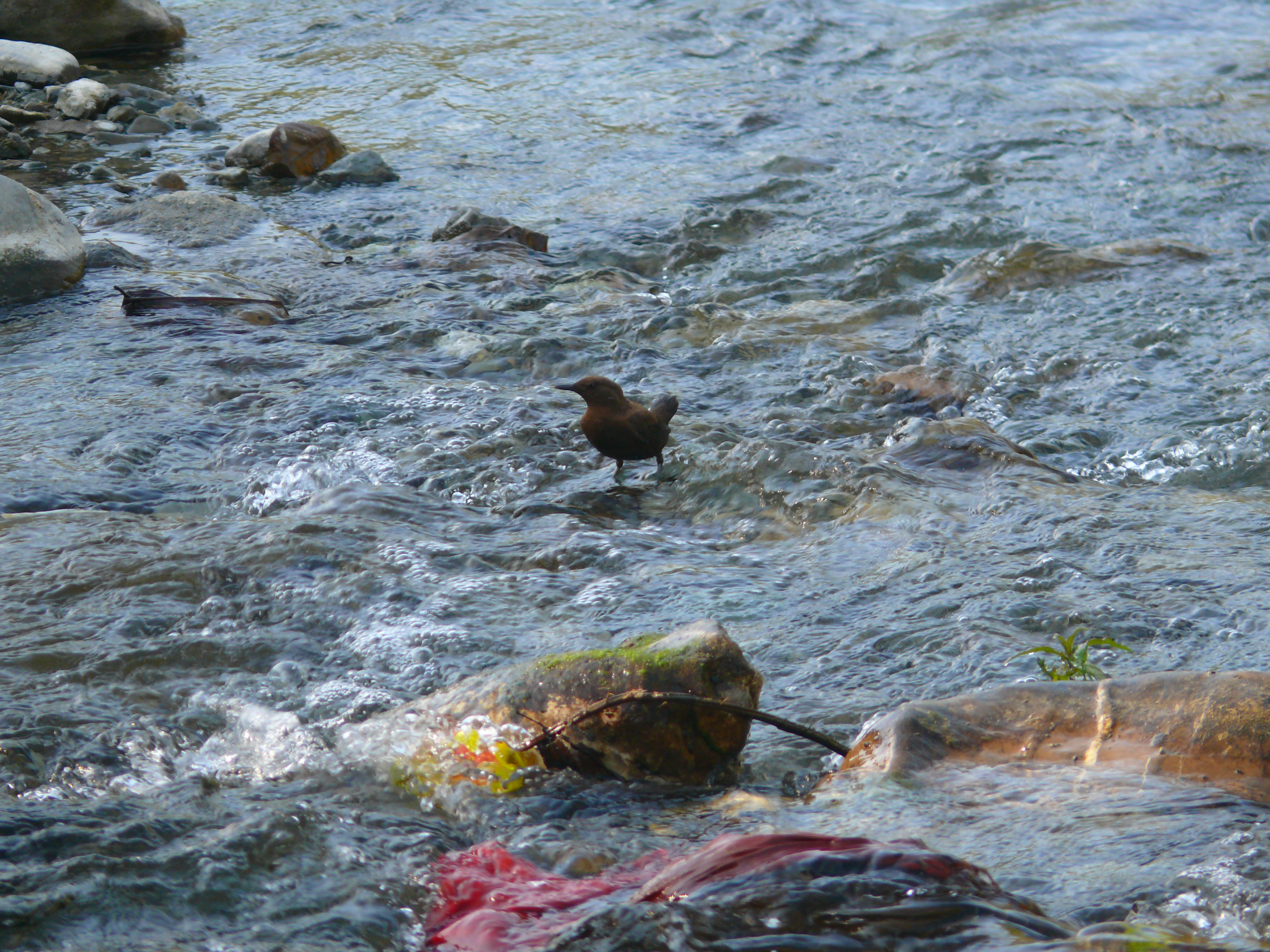 Brown Dipper - Cinclus pallasii